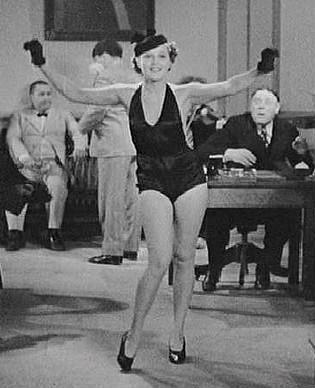 Screenshot from The Three Stooges short subject Disorder in the Court.